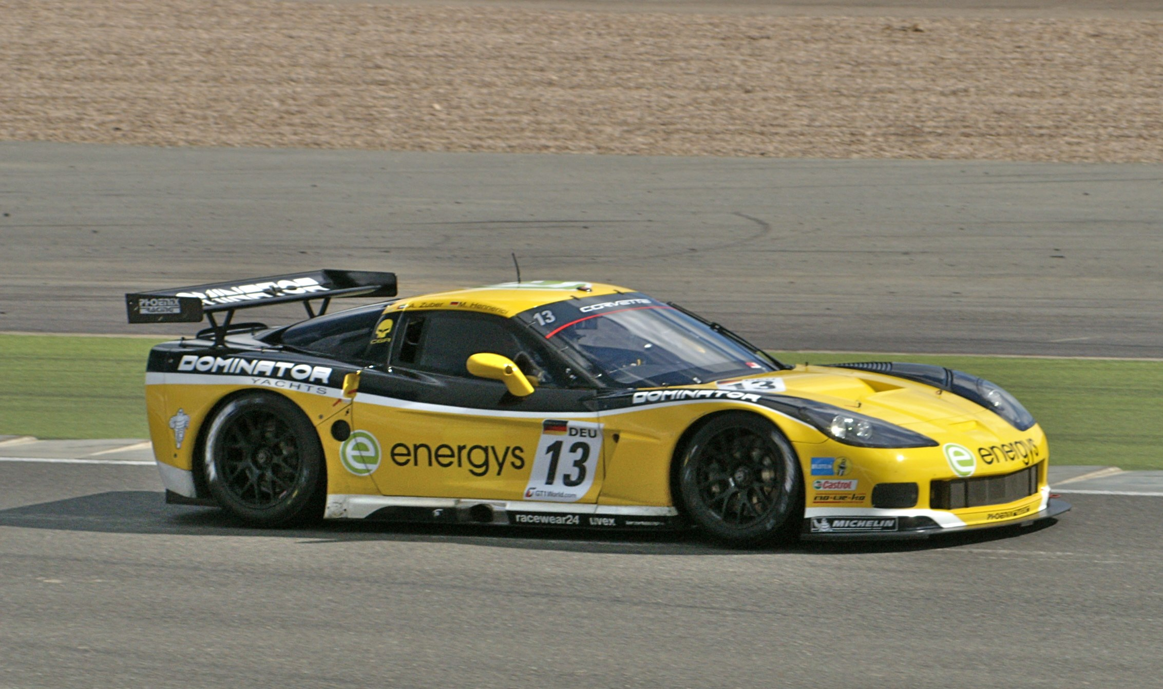 Andreas Zuber and Marc Hennerici in a Chevrolet Corvette Z06 for Phoenix Racing in the 2010 Silverstone Super Cars.Original description from flickr: Silverstone Super Cars 2010